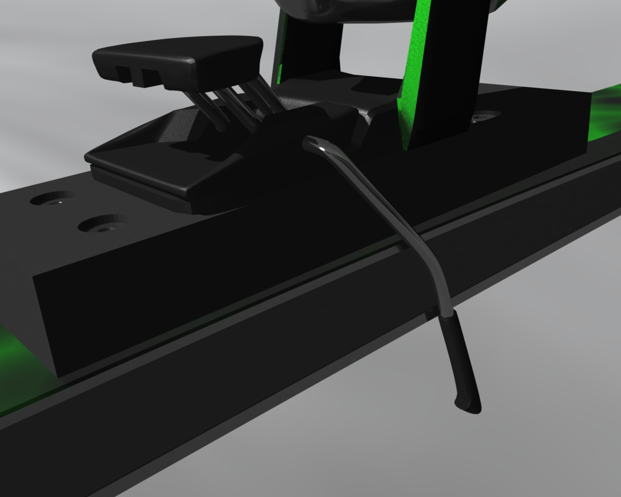 Opened snow brake